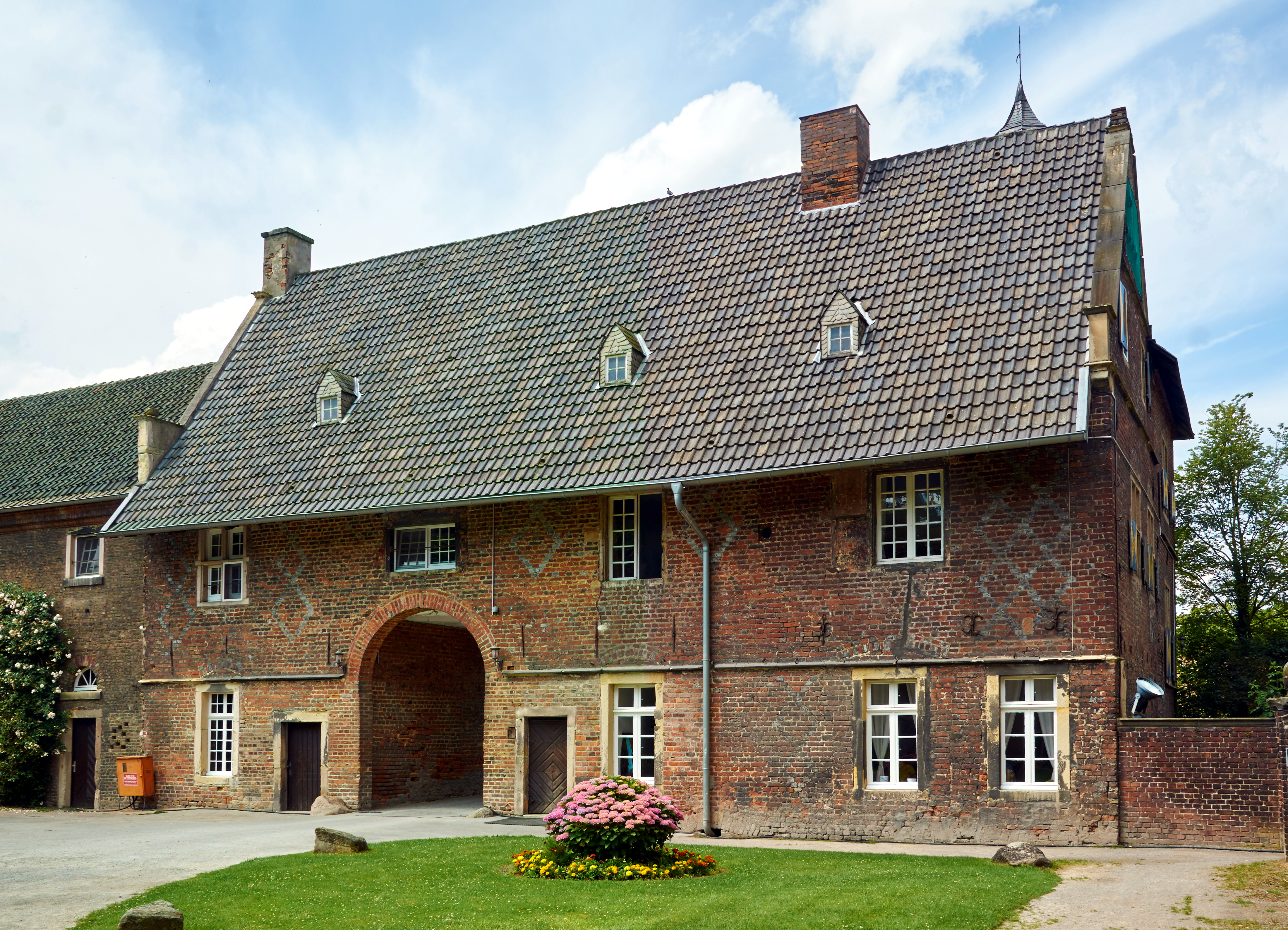 Schloss Heessen is a water castle in Hamm, North Rhine-Westphalia, Germany. This is a photograph of an architectural monument.